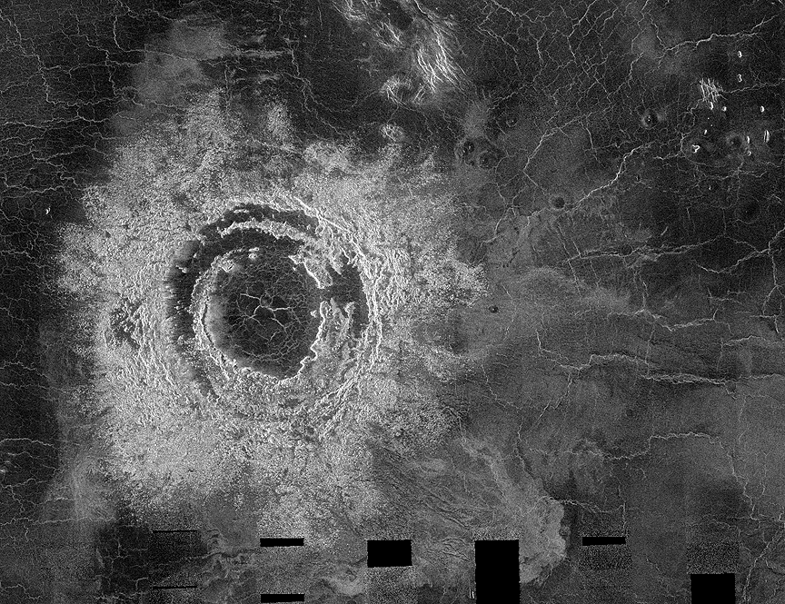 Magellan radar image of Mona Lisa crater, Venus. This 86 km diameter multi-ring crater is located at 25.55N,25.1E. North is up. (Portion of Magellan C1-MIDR 30N027;1,framelets 43 and 44) Location & Time Information Date/Time (UT): N/A Distance/Range (km): 512.9 Central Latitude/Longitude (deg): +29.95/027.43 Orbit(s): 605-676 Imaging Information Area or Feature Type: Crater Instrument: Synthetic Aperture Radar Instrument Resolution (pixels): 240 x 240, 8 bit Instrument Field of View (deg): 2.1 x 2.5 Filter: N/A Illumination Incidence Angle (deg): 39.1-44.5 Phase Angle (deg): 0 Instrument Look Direction: Left Surface Emission Angle (deg): 39.1-44.5 Ordering Information CD-ROM Volume: MG_0012 NASA Image ID number: C1-30N027;1 Other Image ID number: N/A NSSDC Data Set ID (Photo): 89-033B-01O NSSDC Data Set ID (CD): 89-033B-01C Other ID: N/A